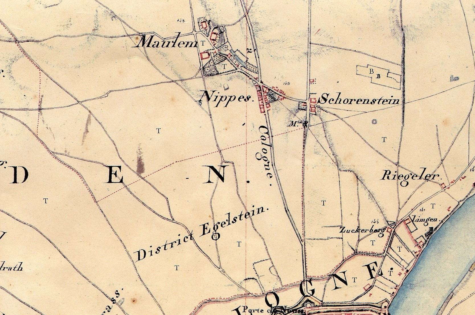 Map from Jean Joseph Tranchot (died 1815), drawn August 1807